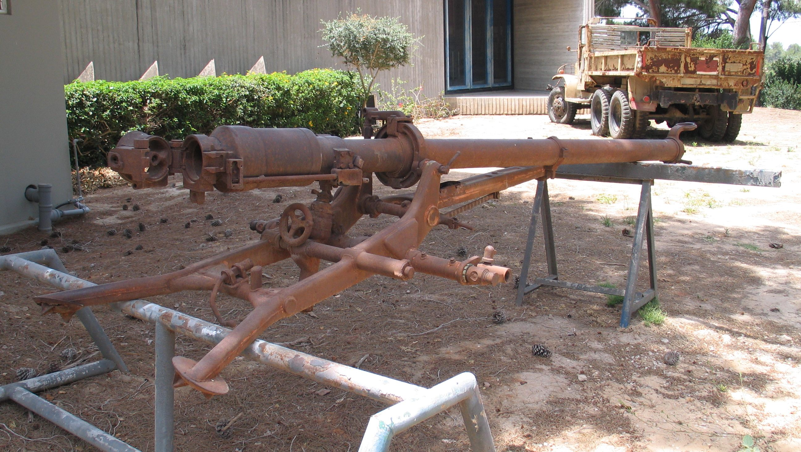 A recoilless rifle (Soviet 107-mm B-11 ?) outside of the Kibbutz Yad Mordechai Museum building.